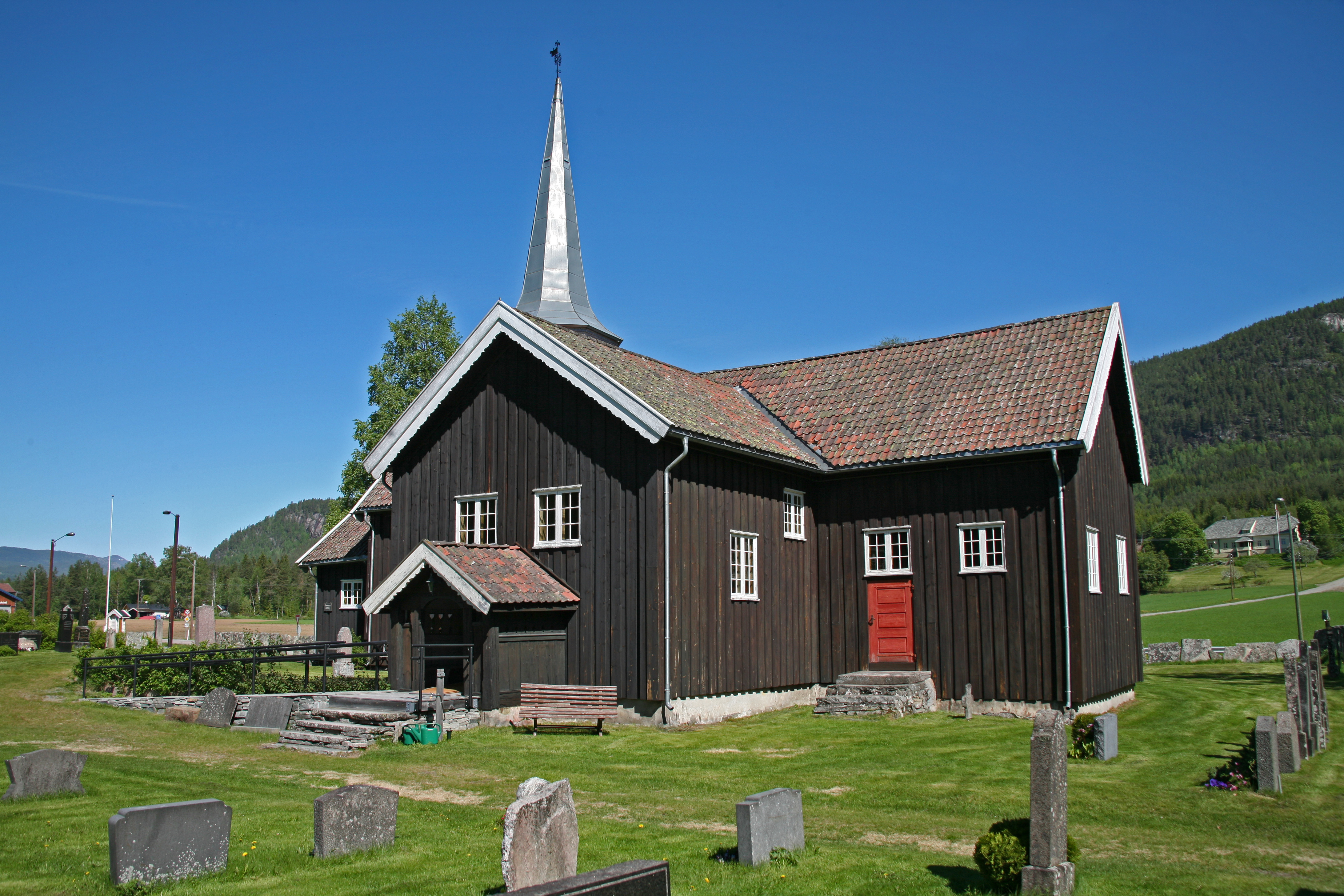 Picture of Flesberg stave church (Buskerud - Norway)